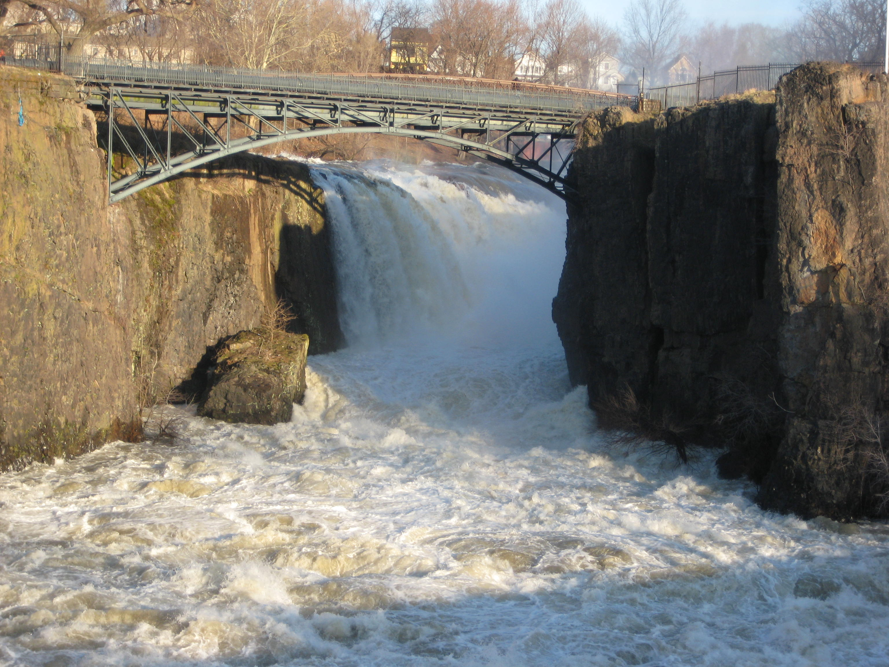 Great Falls of Paterson/S.U.M. Historic District